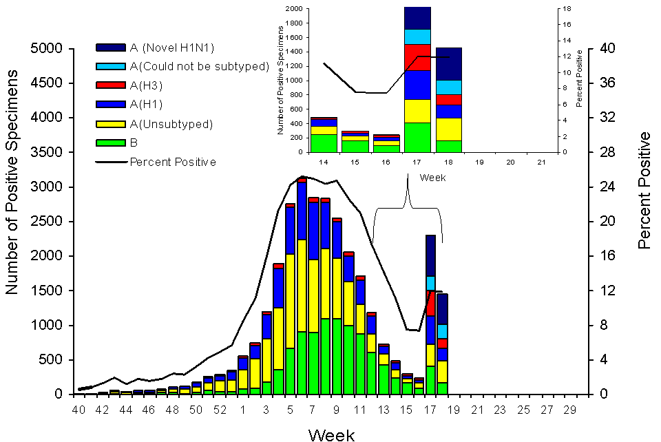 Influenza positive tests reported to CDC by US WHO/NREVSS collaborating laboratories, national summary, 2008-2009 season week 18: subtypes and percent positive tests. The strain responsible for the 2009 novel H1N1 outbreak is shown.